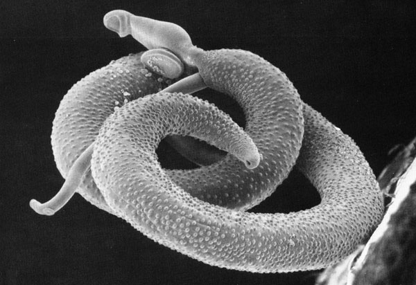 Scanning electron micrograph of a pair of Schistosoma mansoni